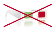 No require to wear special 3D glasses.